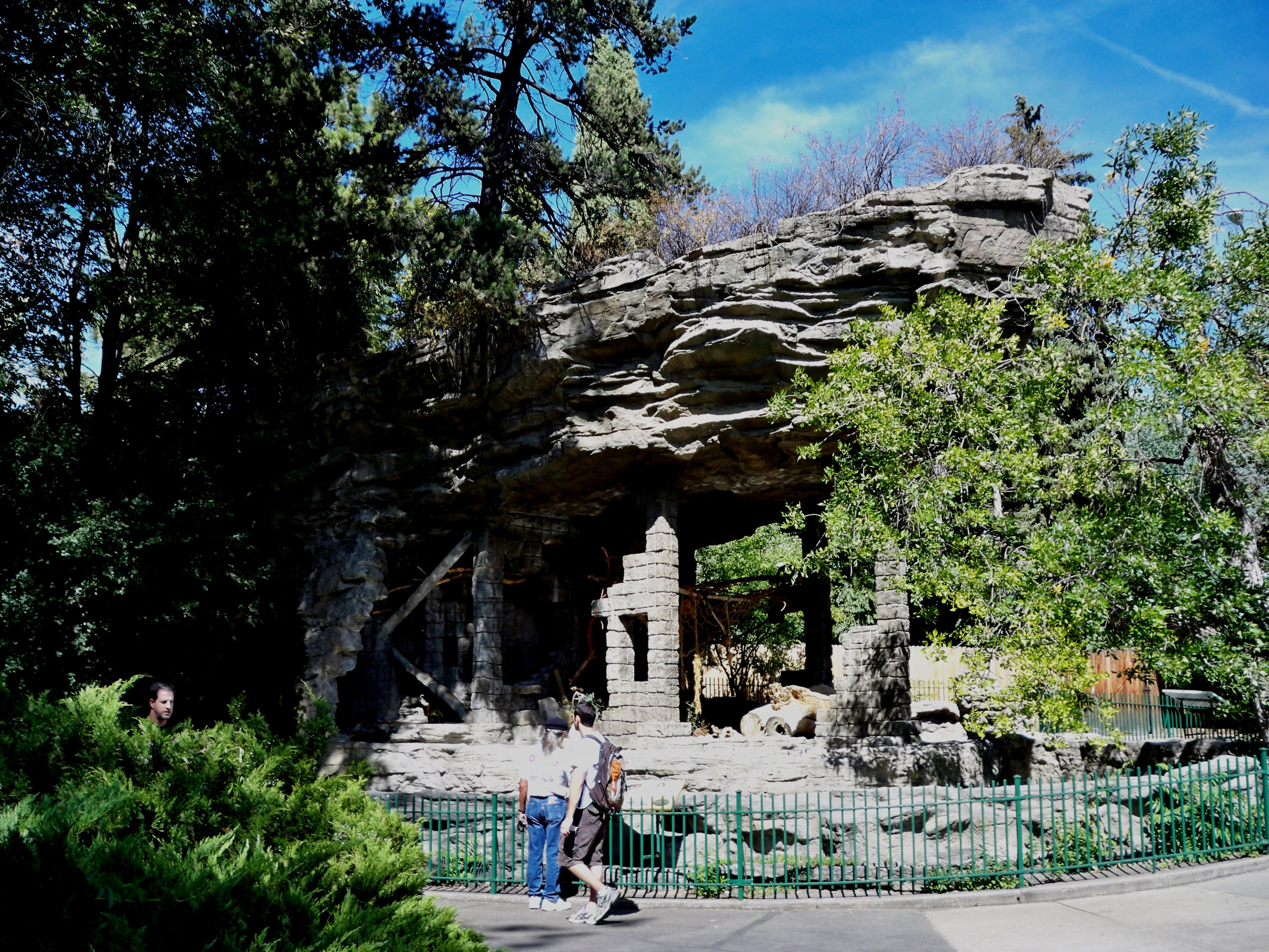 Bear Mountain at the Denver Zoo. First "naturalistic" animal enclosure in the United States.